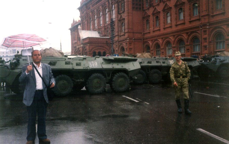 tourist with BTR-80 personnel carrier on Revolution Square (Moscow, just off Red Square) during the 1991 coup attempt.